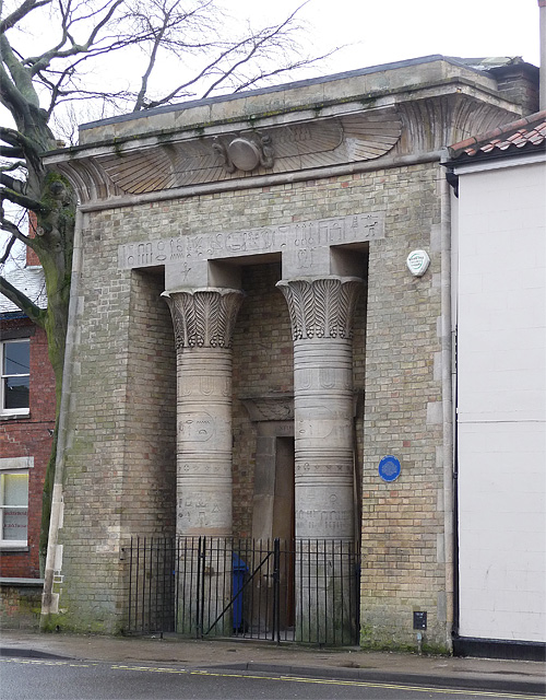 Freemasons' Hall, Main Ridge, Boston, Lincolnshire